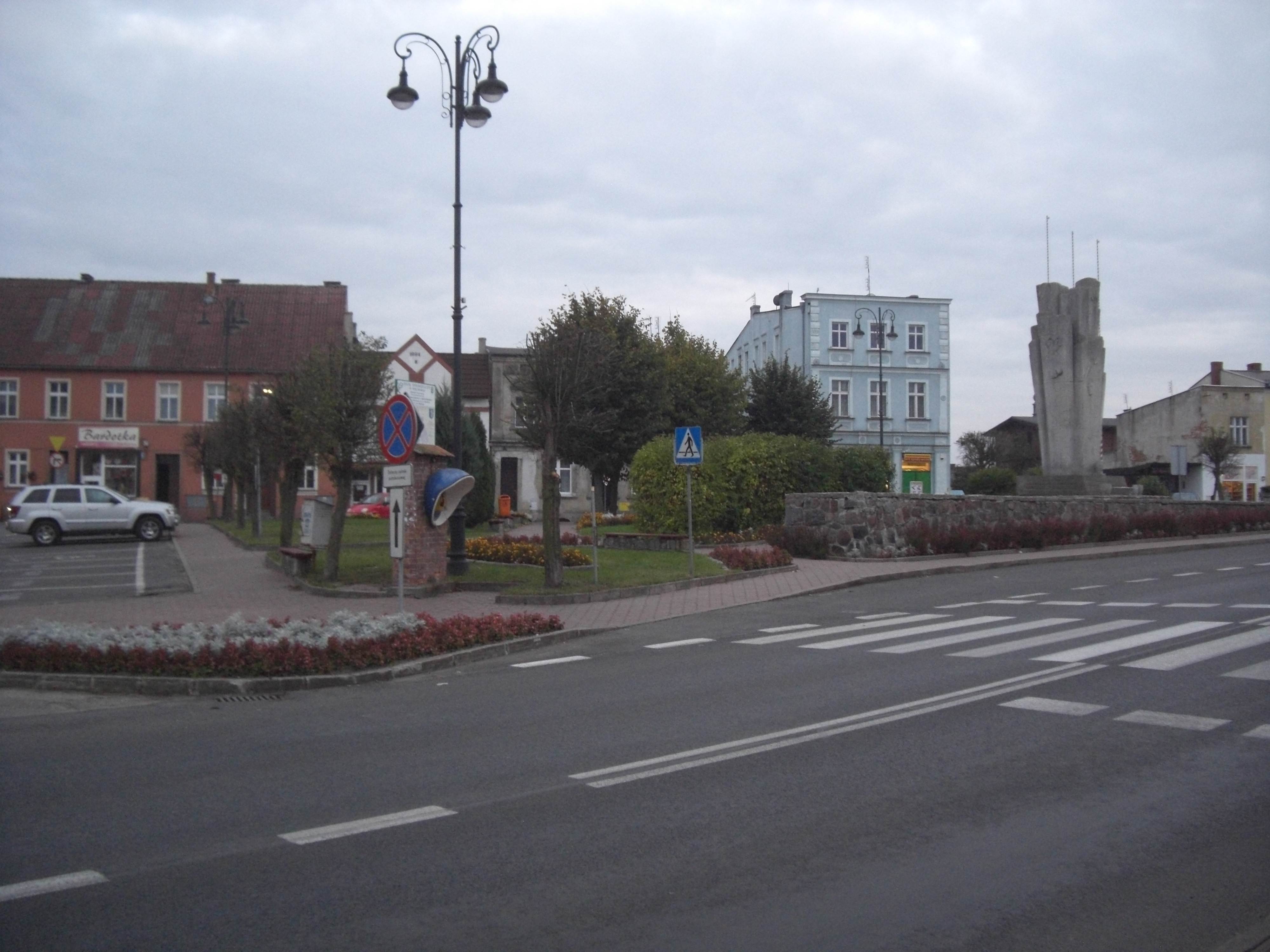 Marktet Place, Sępólno Krajeńskie